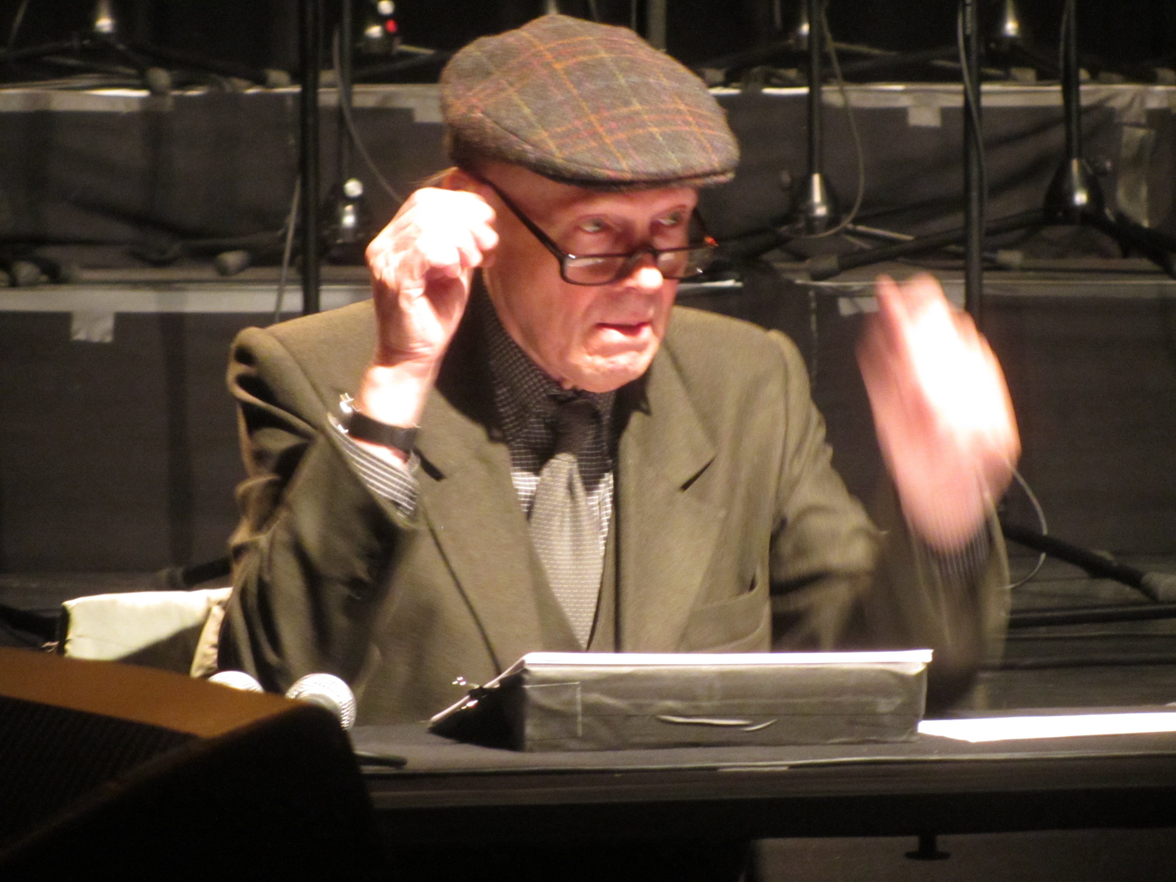 Sven-Åke Johansson before the stage production of "Stadt der 1000 Feuer" in Mannheim, on January 23, 2014